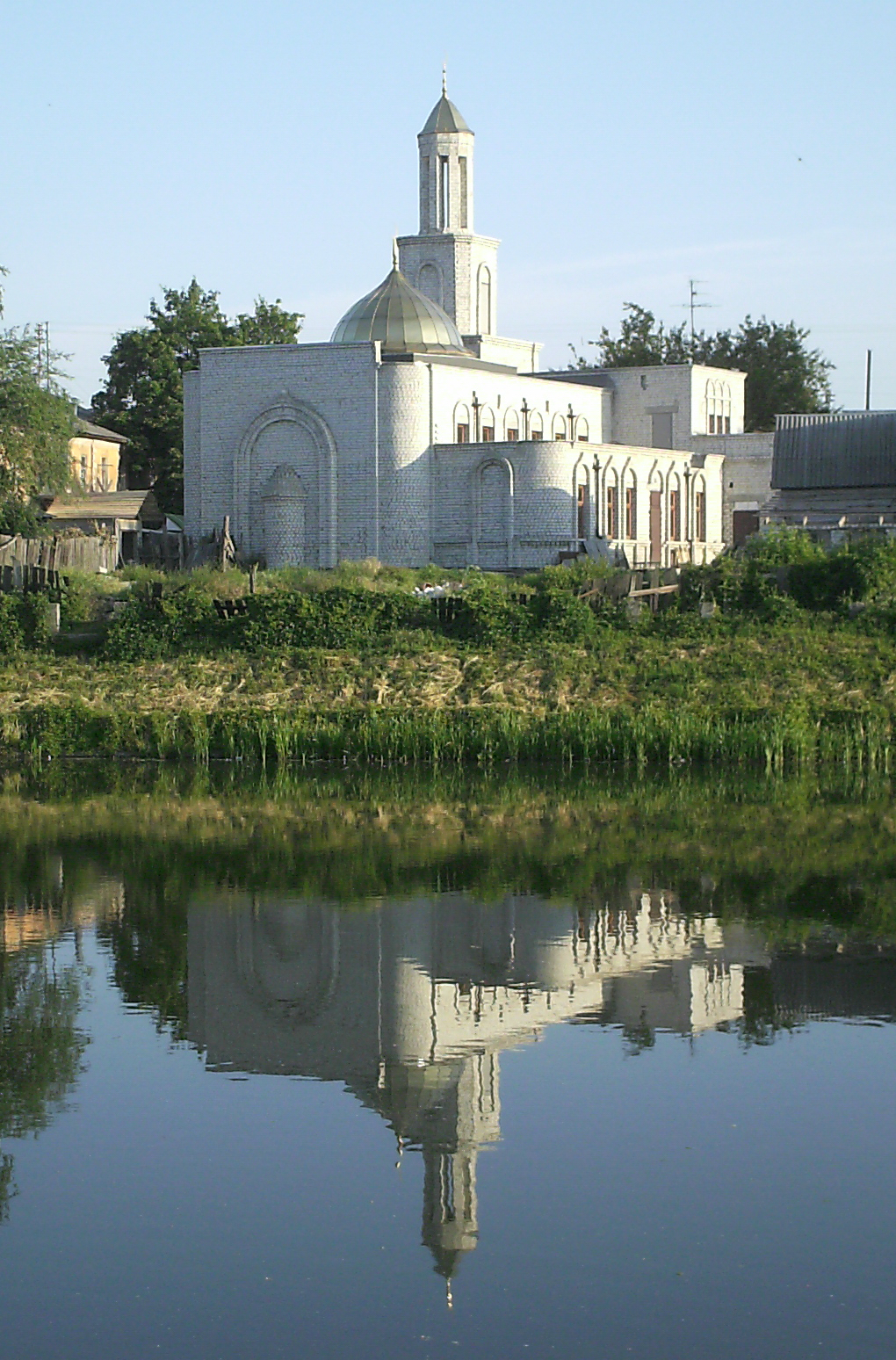 Kharkov Mosque on the Lopan River.